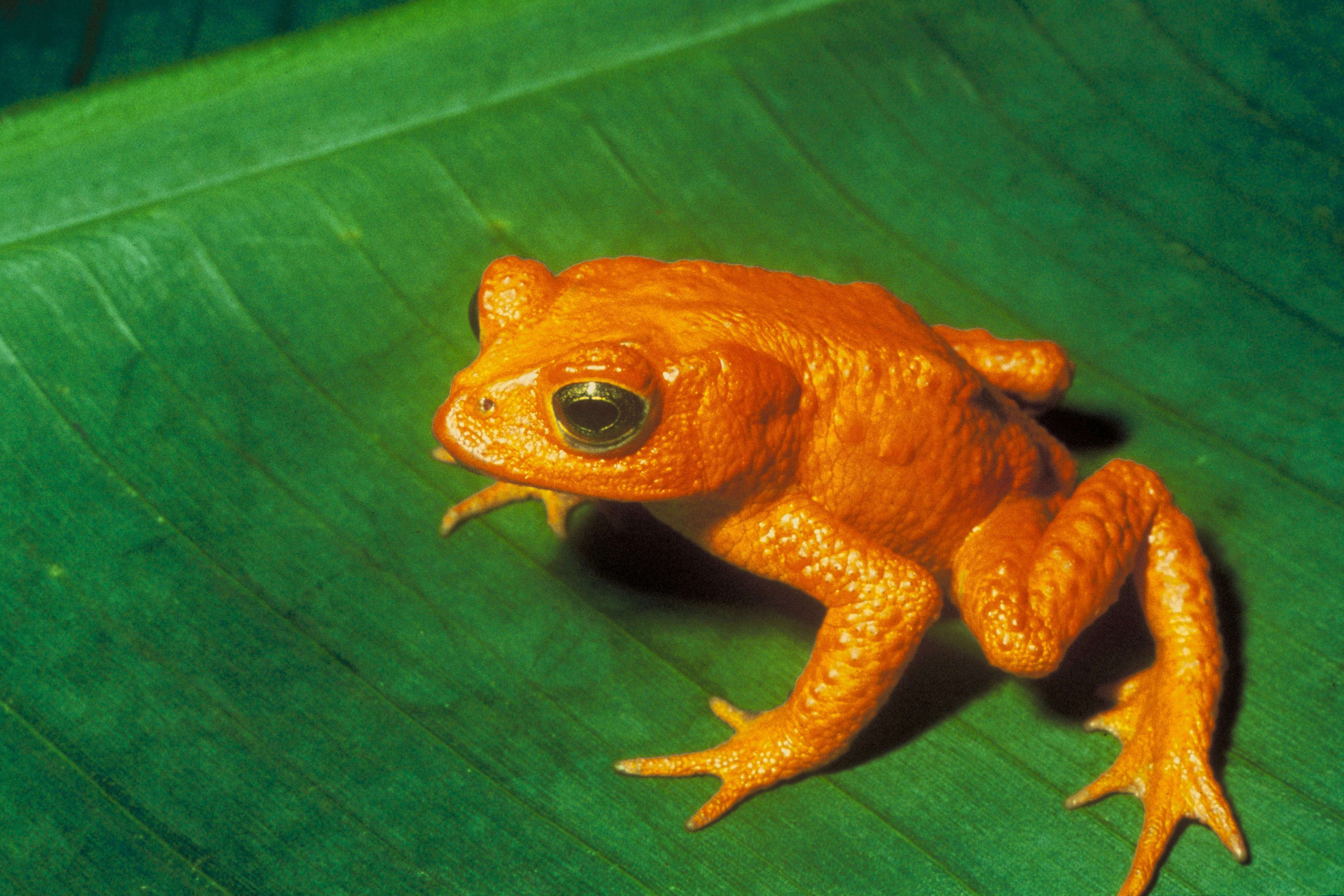 Golden toad (Bufo periglenes) †.